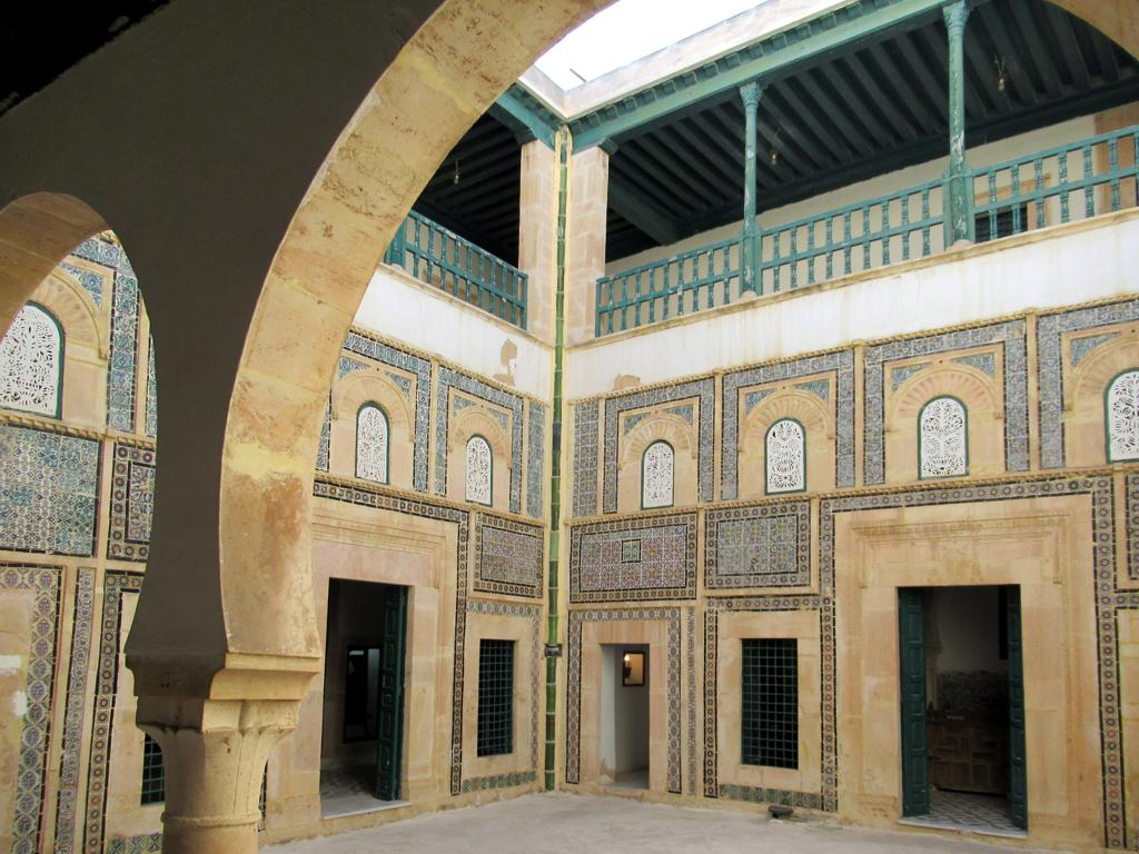 The Musée Dar Jallouli occupies a 17th century courtyard mansion in the center of the old medina at Sfax, Tunisia. The building was erected by Andalusian refugees as reflected in the decor.